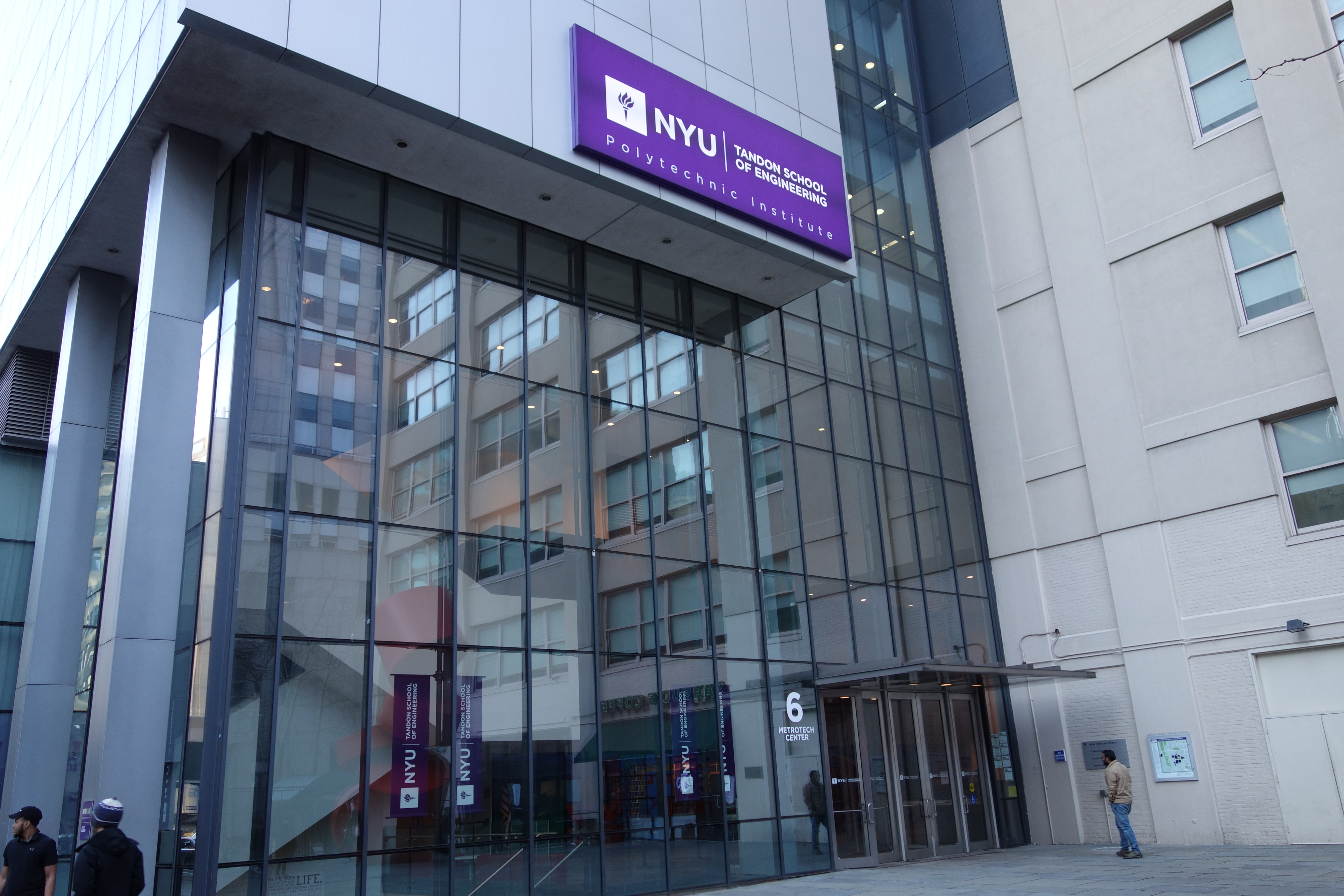 The Jacobs Building (6 MetroTech Center) of New York University Tandon School of Engineering, at Jay Street and Myrtle Avenue in MetroTech, Downtown Brooklyn.